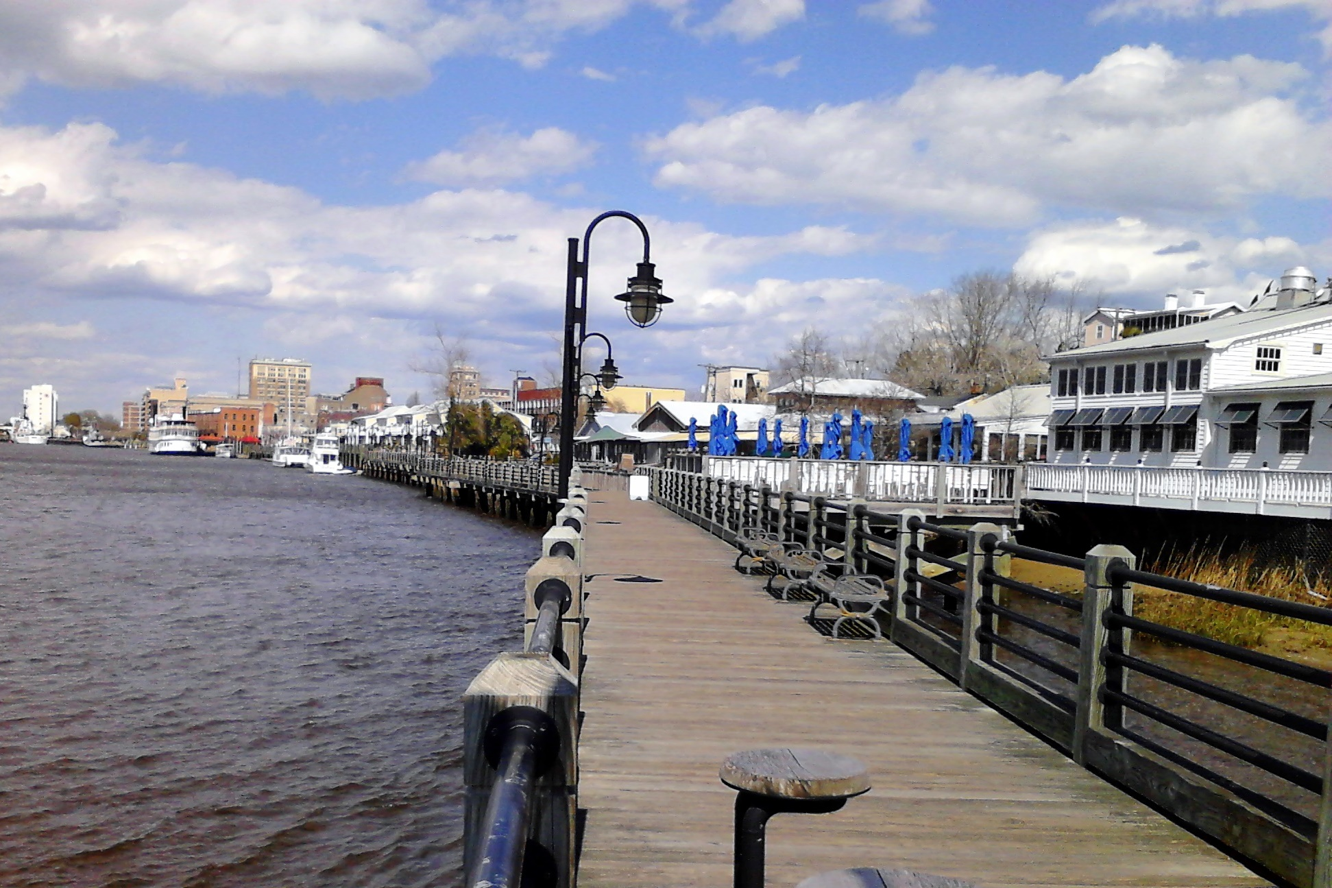 The Wilmington Riverwalk in North Carolina along the Cape Fear River with downtown Wilmington in the background.